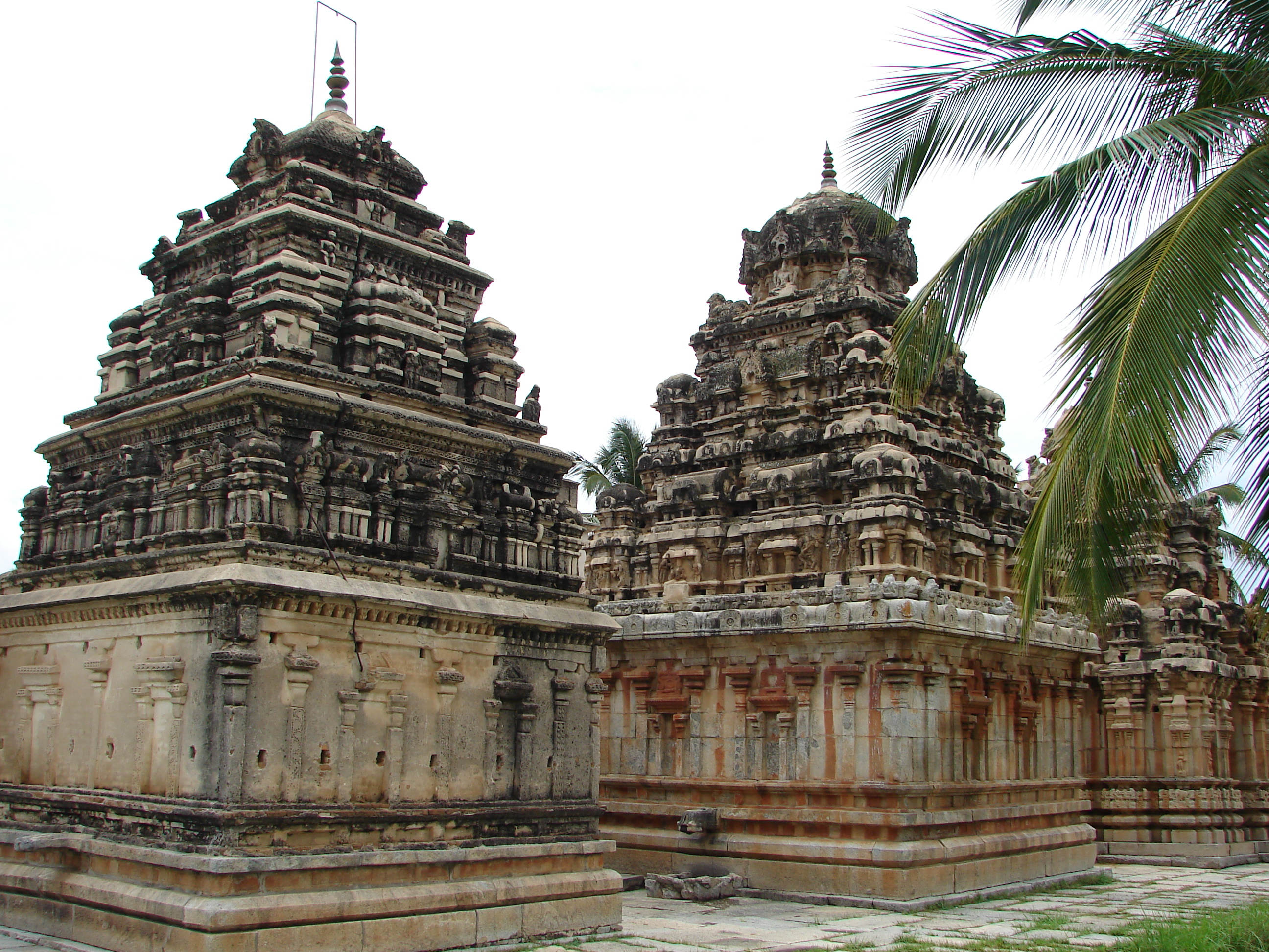 This photograph was taken by me at the Ramalingeshwara group of temples (also spelt Ramalingeshvara) in Avani, Kolar district, Karnataka state, India. There are shrines dedicated to other characters from the Hindu epic Ramayana as well, namely, Lakshmanalingeshwara, Bharatalingeshwara, Shatrugnalingeshwara, Anjanayeshwara and Sugriveshwara. The temples were initially built by the local Nolamba dynasty in the 10th century and later additions were made by the Chola dynasty. The architecture is basically Dravidian.